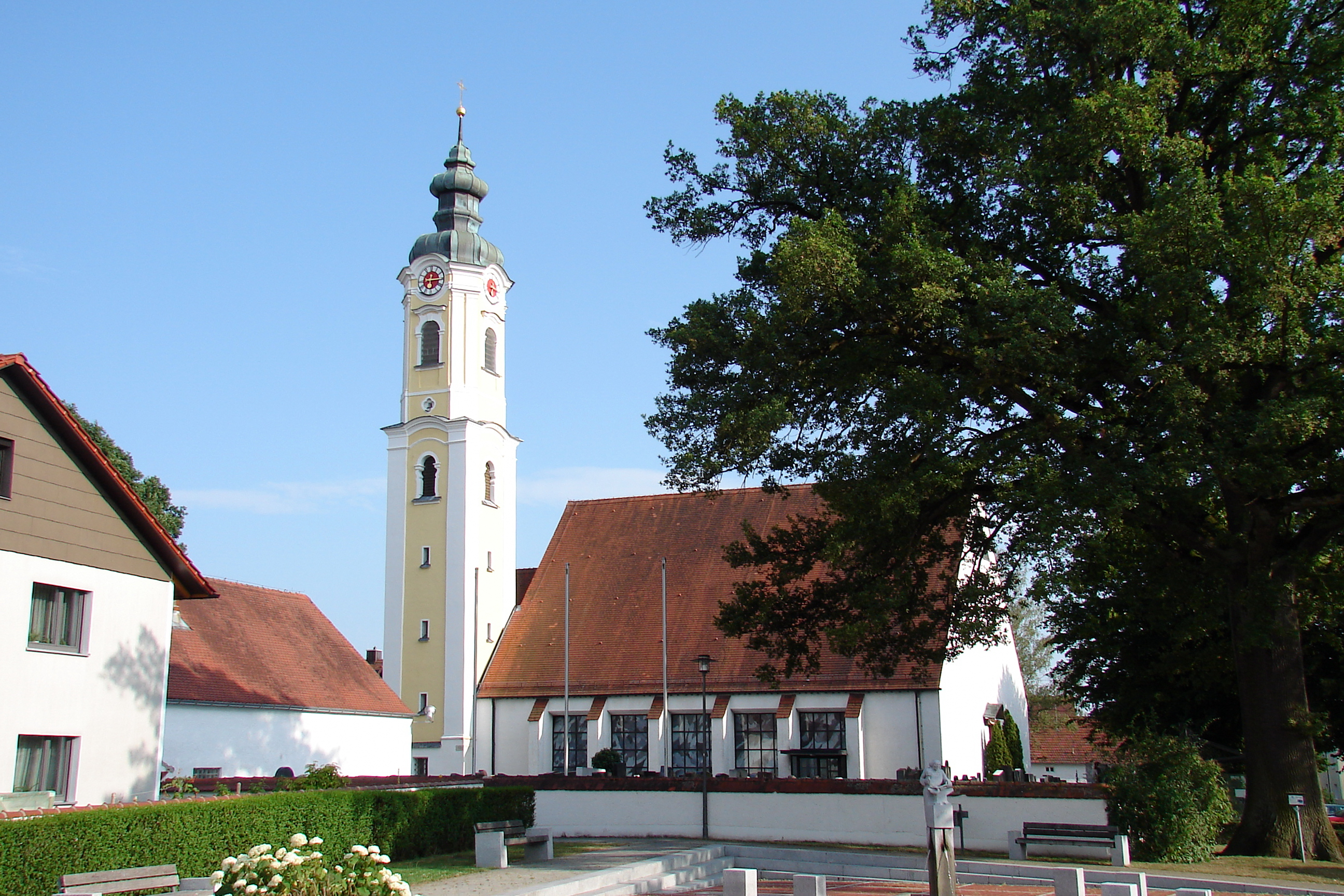 Katholische Pfarrkirche St Martin in Baar-Ebenhausen